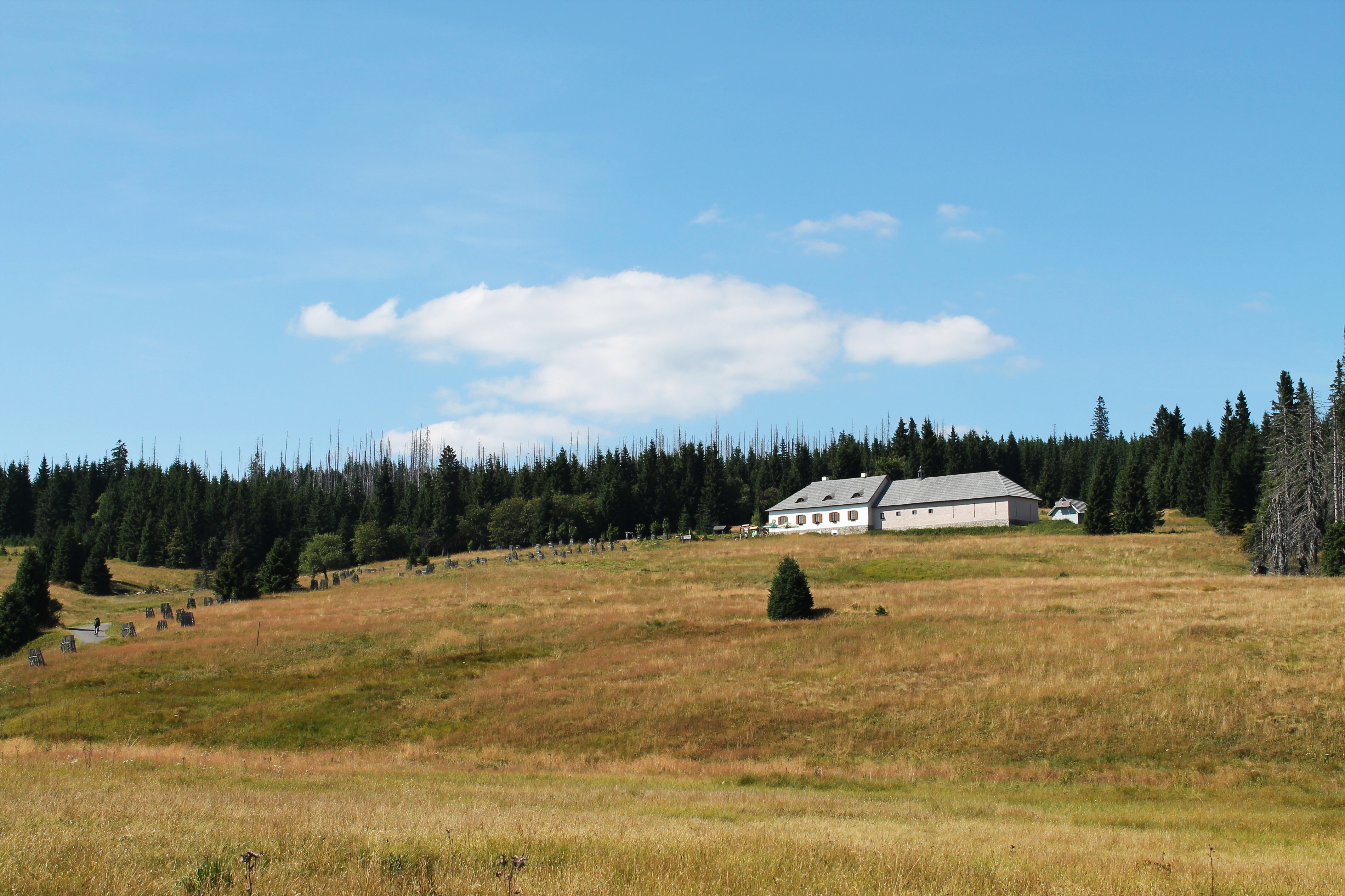 Březník, Modrava, Klatovy District, Czech Republic; Šumava National Park information centre Březník